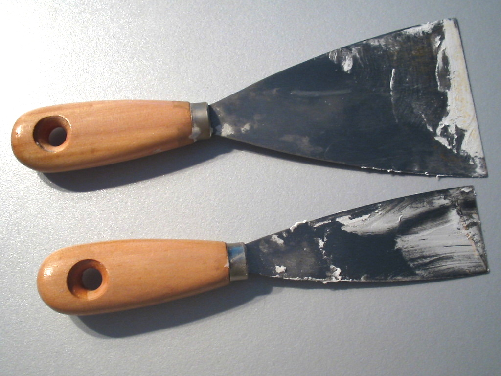 Putty knives